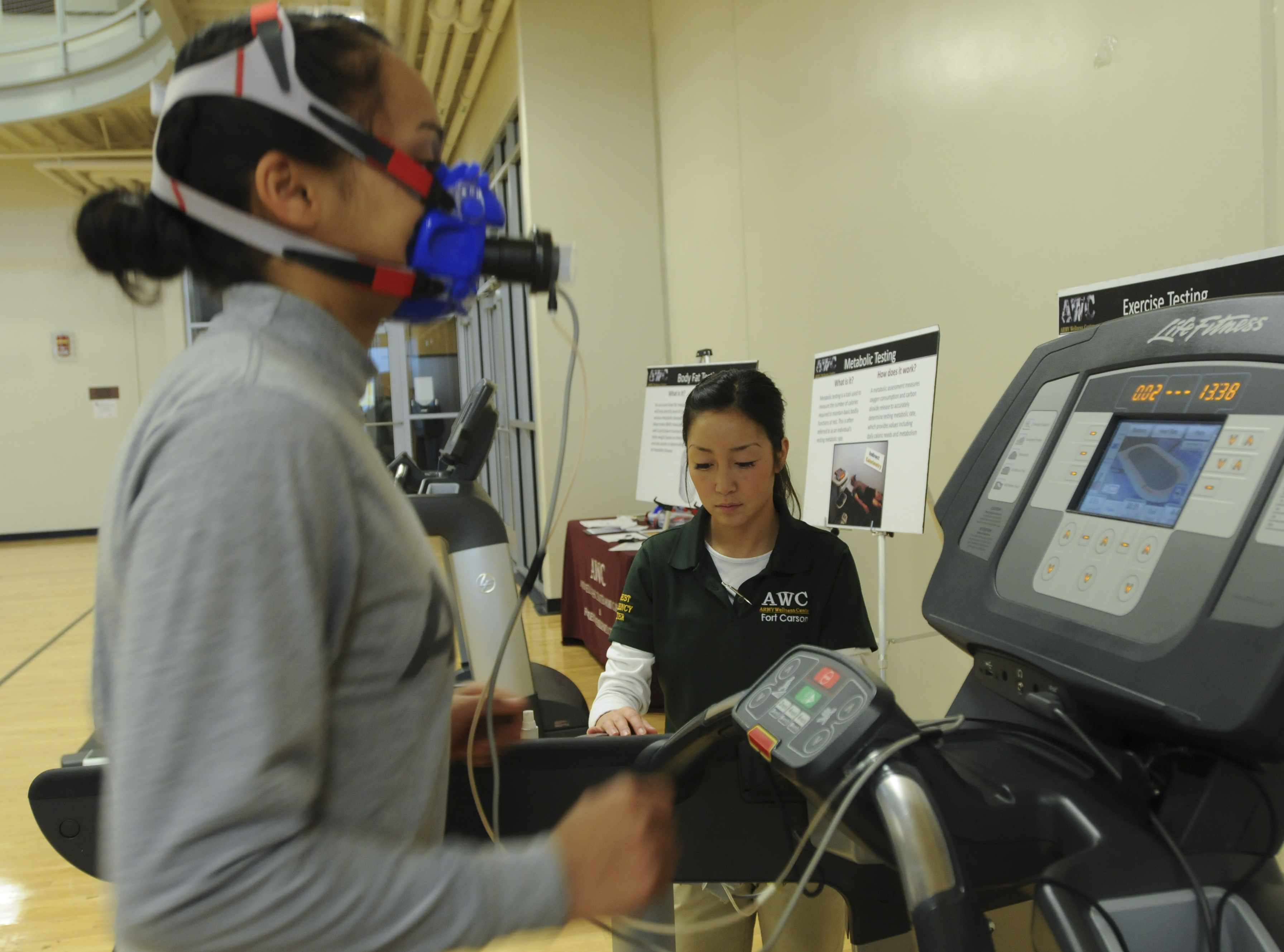 U.S. Army Spc. Alejandra Herrera, left, a mechanic with the 7th Squadron, 10th Cavalry Regiment, 1st Brigade Combat Team, 4th Infantry Division, runs on a treadmill during the VO2 Max competition, which determines who is the fittest Soldier at Fort Carson, March 6, 2013. Krys Bankard, a health promotion technician, with the Army Wellness Center, monitors the test. The competition took place at the Iron Horse Sports and Fitness Center March 4-6.